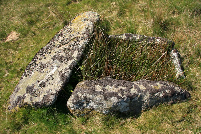 Round Hill Summit cist Nothing remains of the cairn that would have surrounded this cist but the chamber itself is complete with the capstone resting against it.